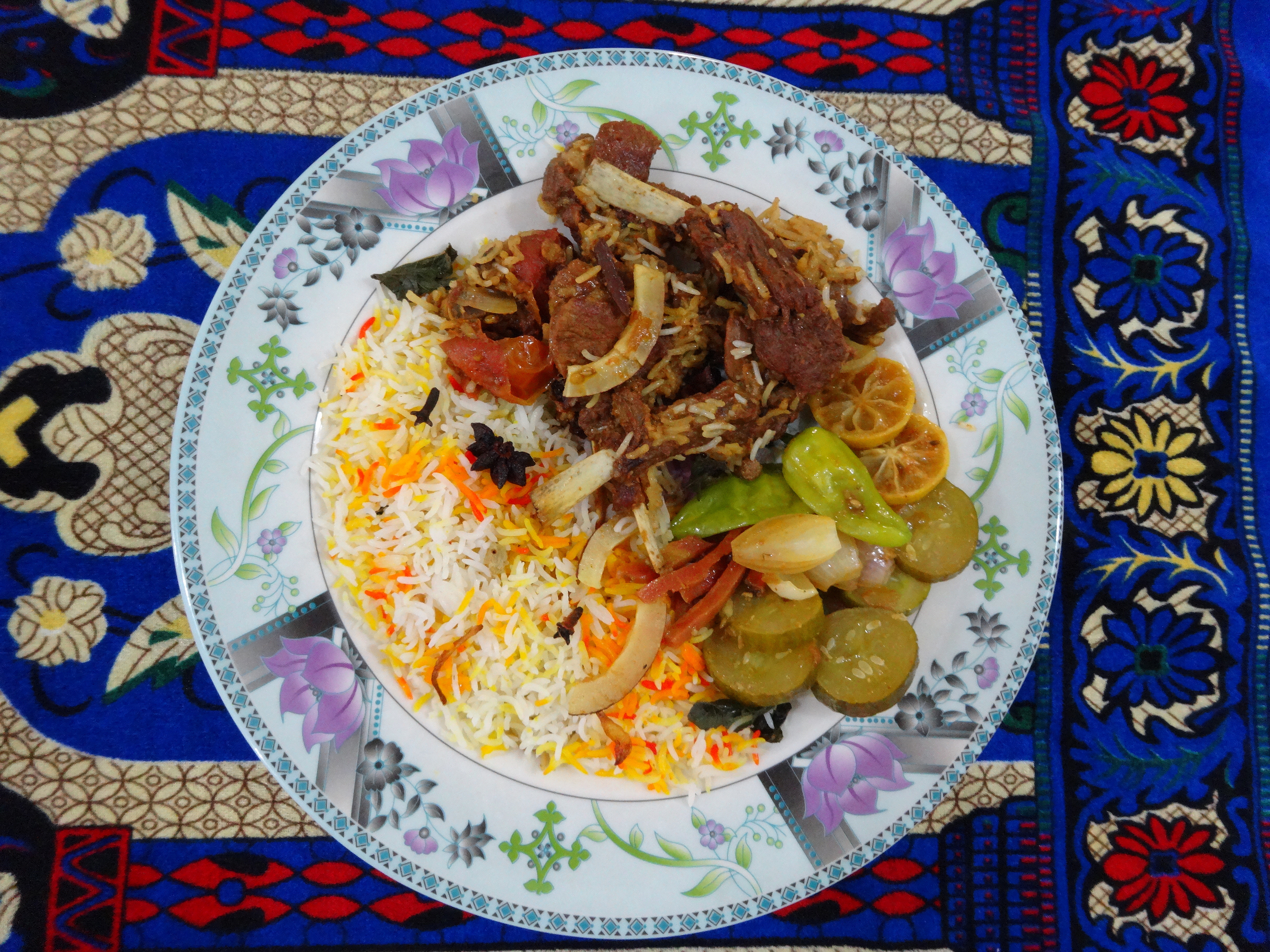 ملائشین ناسی بریانی